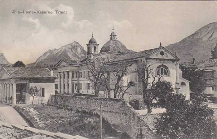 Trento (Italy): a postcard depicting the „Alle Laste Barracks“ of the Austria-Hungarian Army